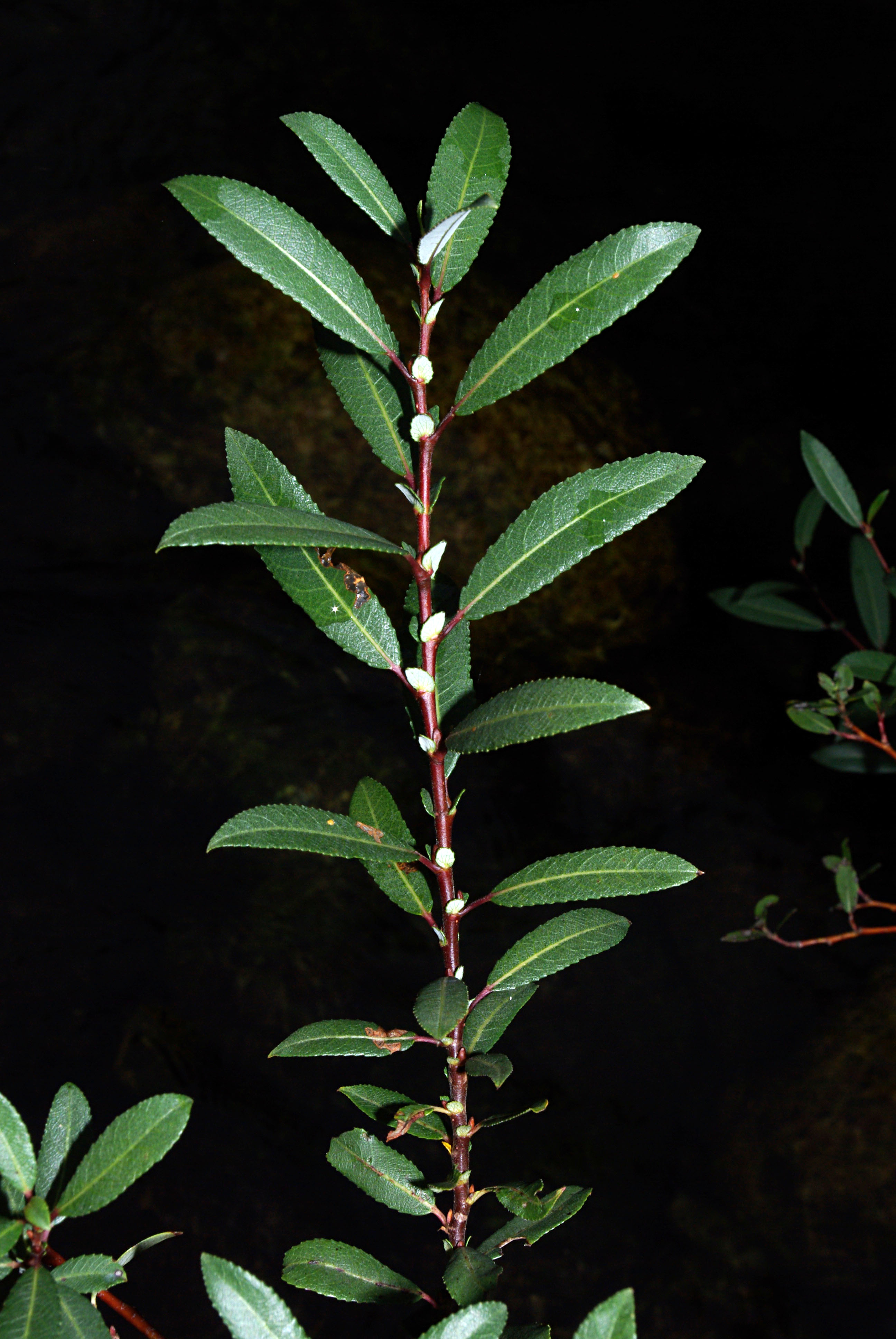 Leaves of Almond Willow (Salix triandra). León, Spain